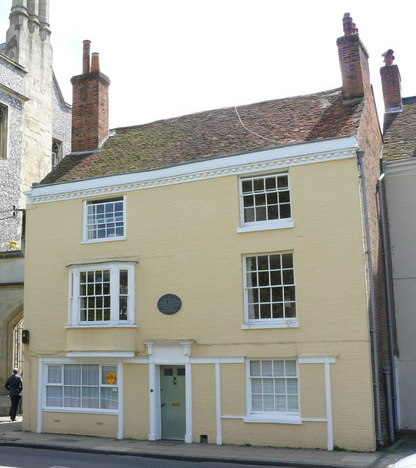 House Where Jane Austen Died Jane Austen spent the last few weeks of her life in this house, and died on 18th July 1817. The house, in College Street, is not open to the public. Jane_Austen